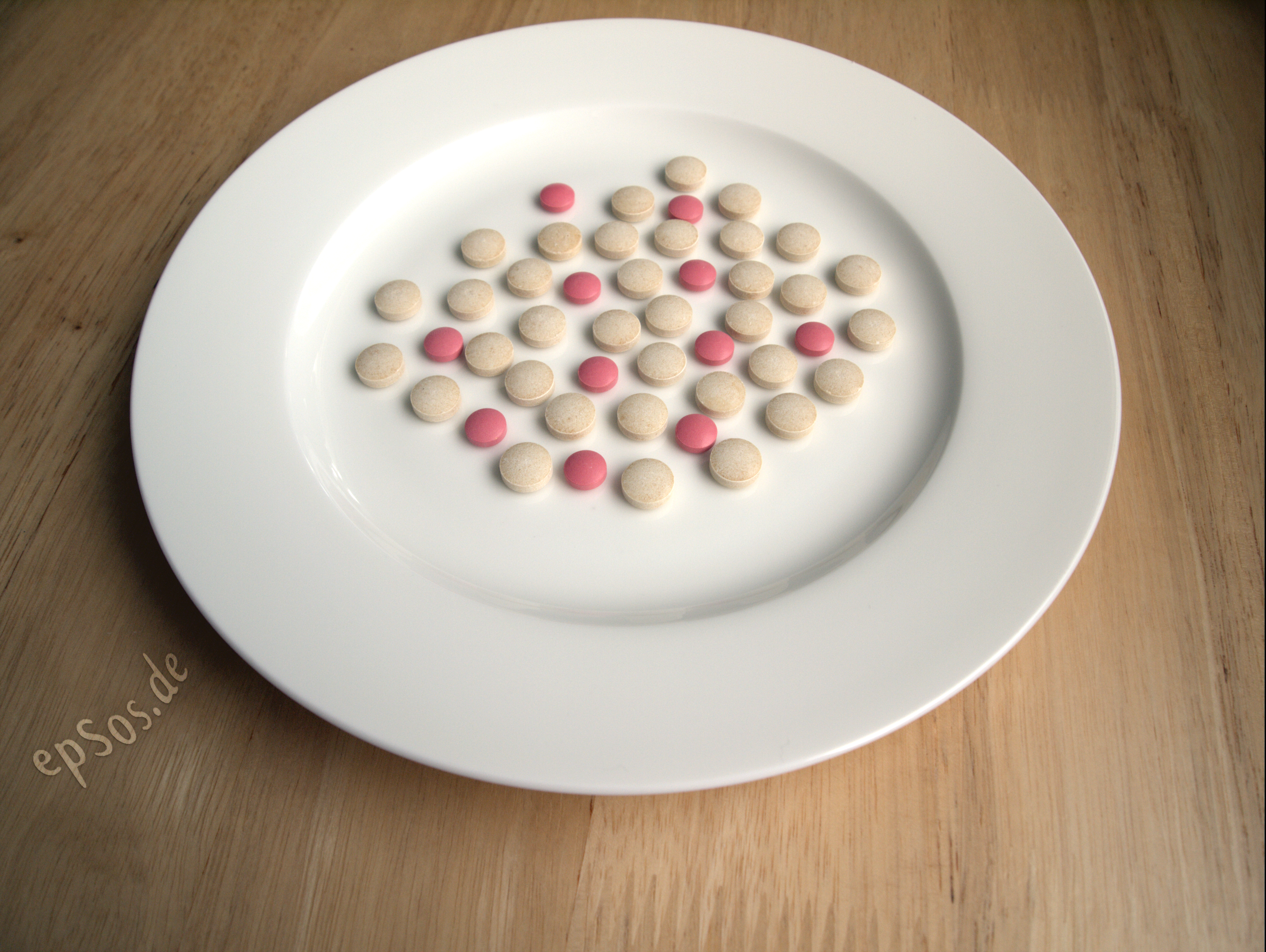 Picture of placebo medicine tablets and real drug pills on a white, plate from the table of pharmaceutical companies that make drugs that help the pharma industry to heal narcotic drug addiction with pharmaceutical. This picture was created by my conscious friend epSos.de and can be used for free, if you link epSos.de as the original author of the image. This image is a metaphor for medical drug abuse and overconsumption of medicine as a form of sickness. epSos.de is strongly against drug abuse. Thank you for sharing this picture with your friends !